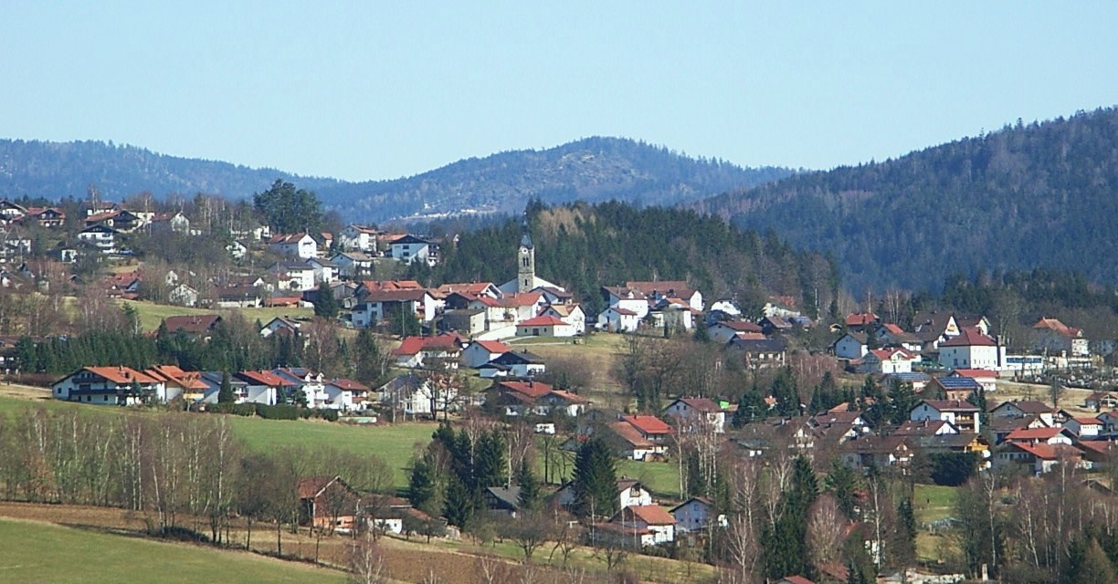 General view of Böbrach from west.